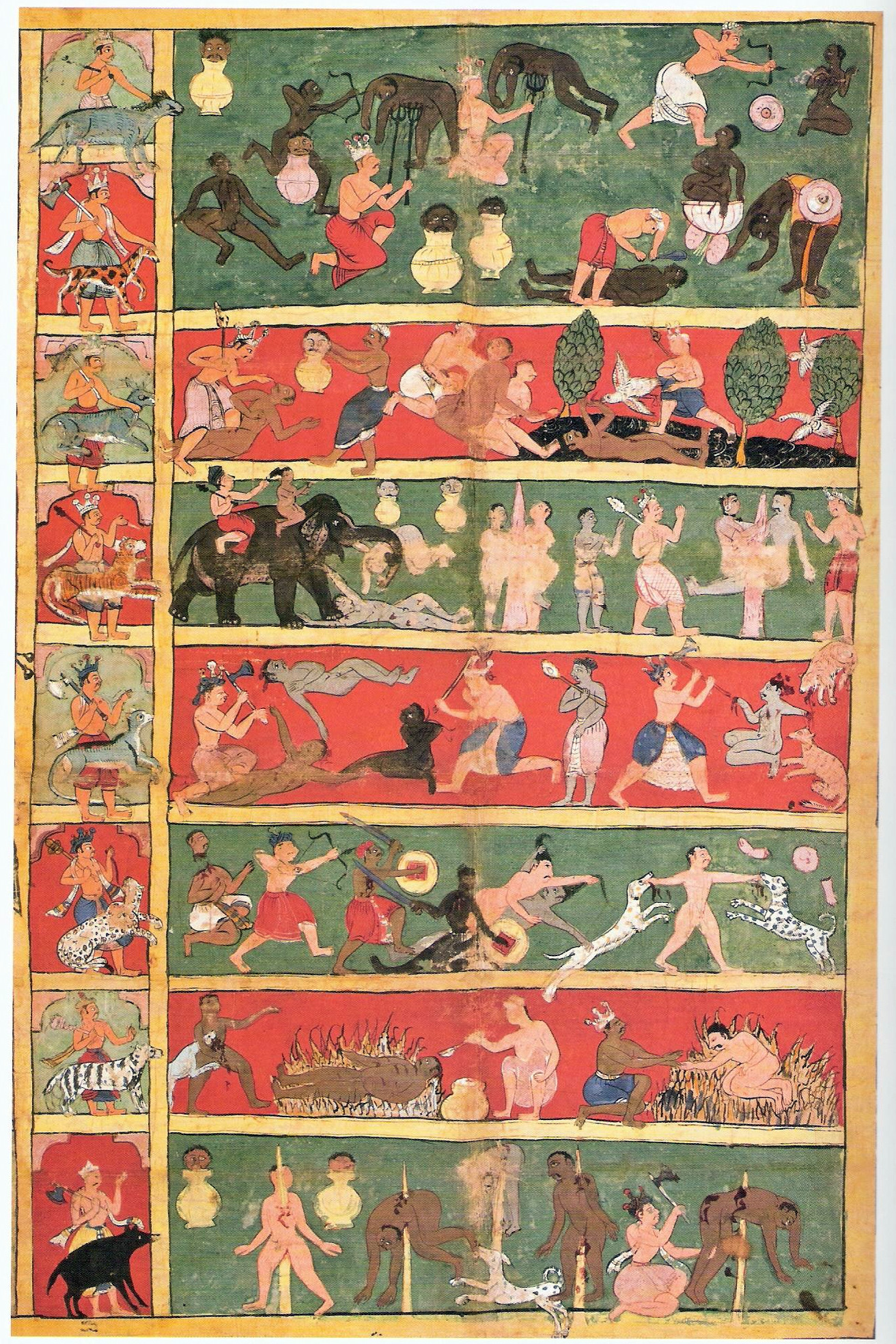 Seven Hells as depicted in Jain Cosmology. Picture taken from 1613 CE cloth painting from Jain temple in Gujarat.